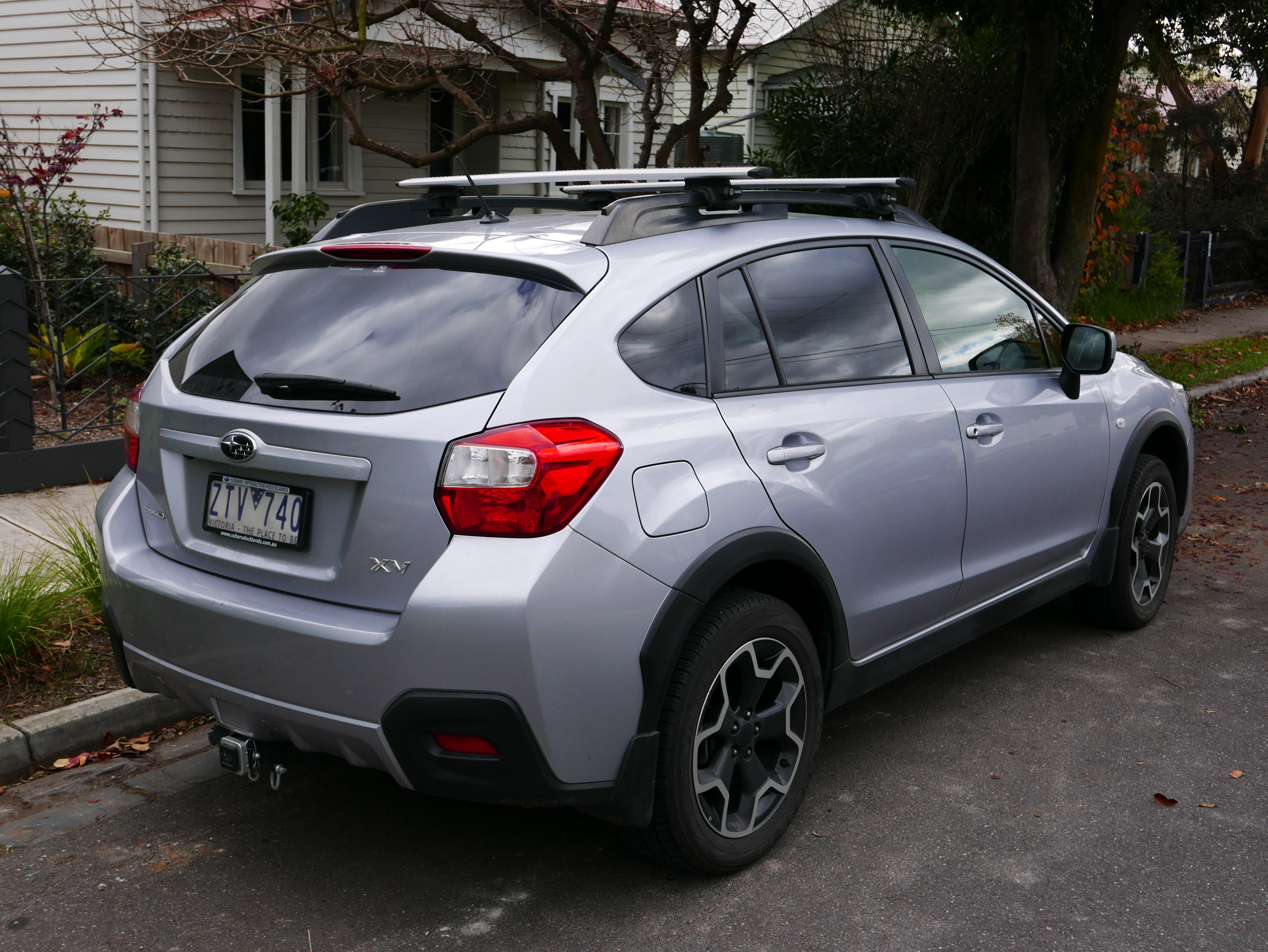 2013 Subaru XV (GP7 MY13) 2.0i-L hatchback. Photographed in Northcote, Victoria, Australia. Vehicle registration enquiry resultsJurisdictionVictoriaRegistrationZTV740Chassis codeJF1GP7KA3DG030646Engine codeR710652Compliance date2013-05Year of manufacture2013